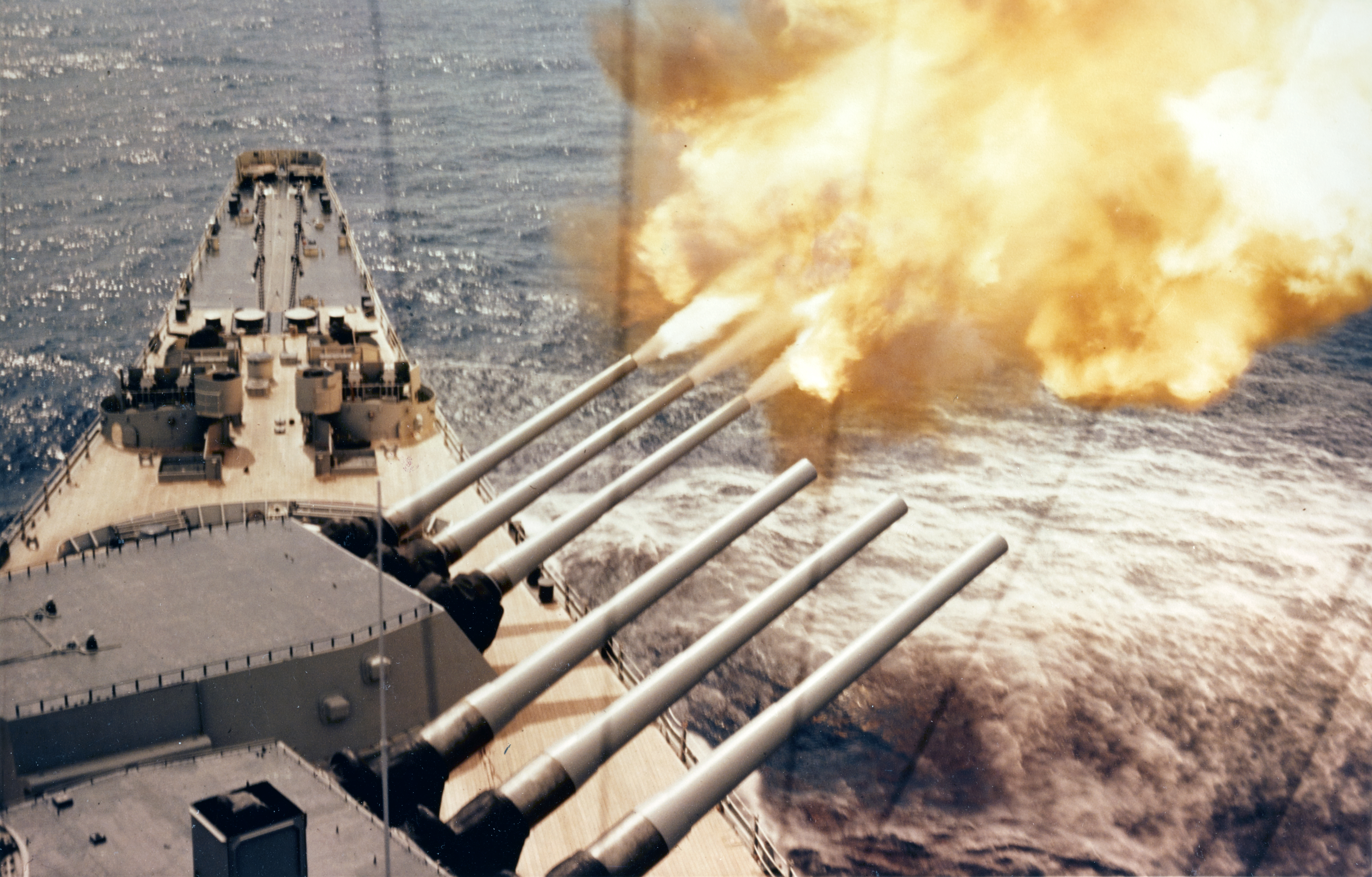 USS Wisconsin (BB-64) fires a three-gun salvo from her forward 16"/50 gun turret, during bombardment duty off Korea.